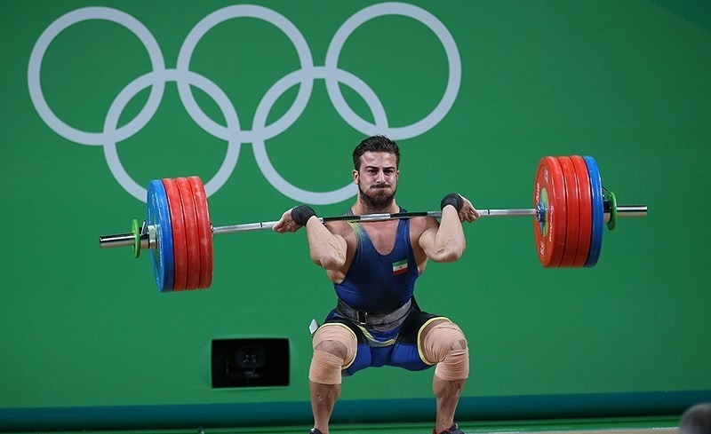 Kianoush Rostami at the 2016 Summer Olympics